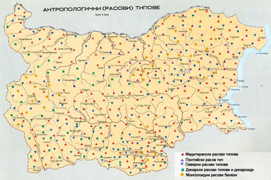 Racial and anthropological types in Bulgaria Nordic race Mediterranean race Dianric race Pontid race Mongoloid traits